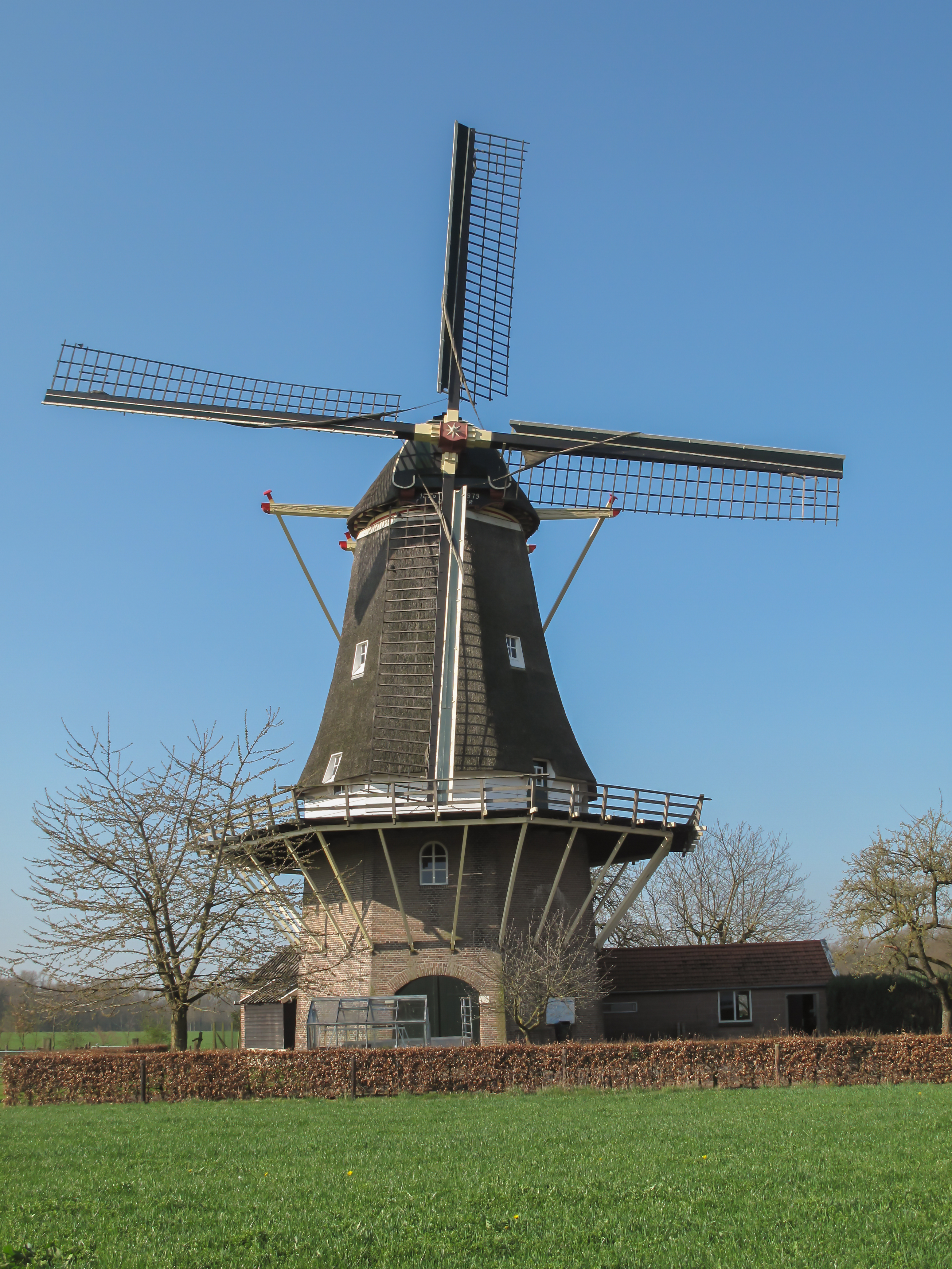 Geesteren, windmill: molen de Ster